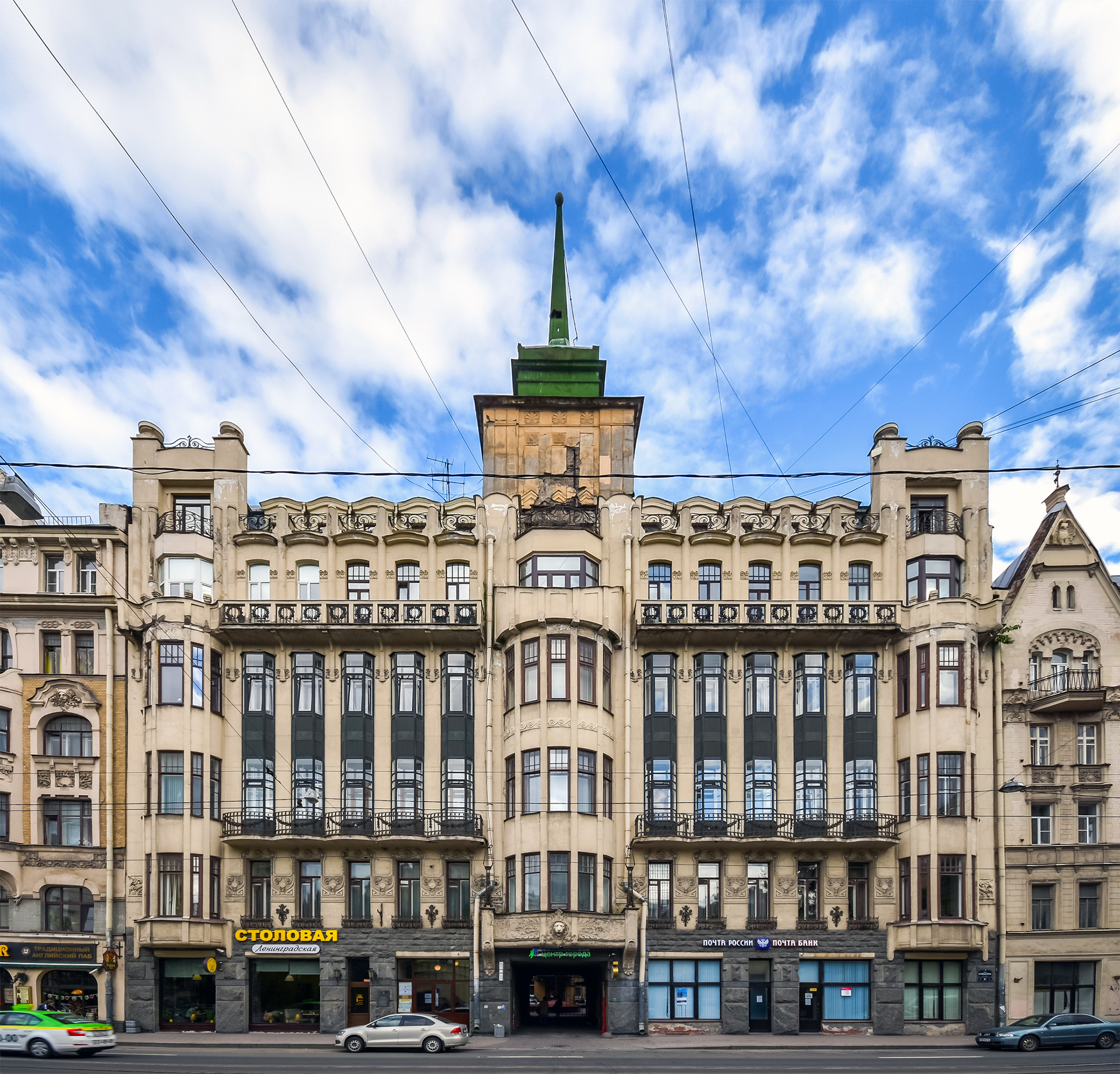 Tanskoy's House at Kuybysheva Street in Saint Petersburg